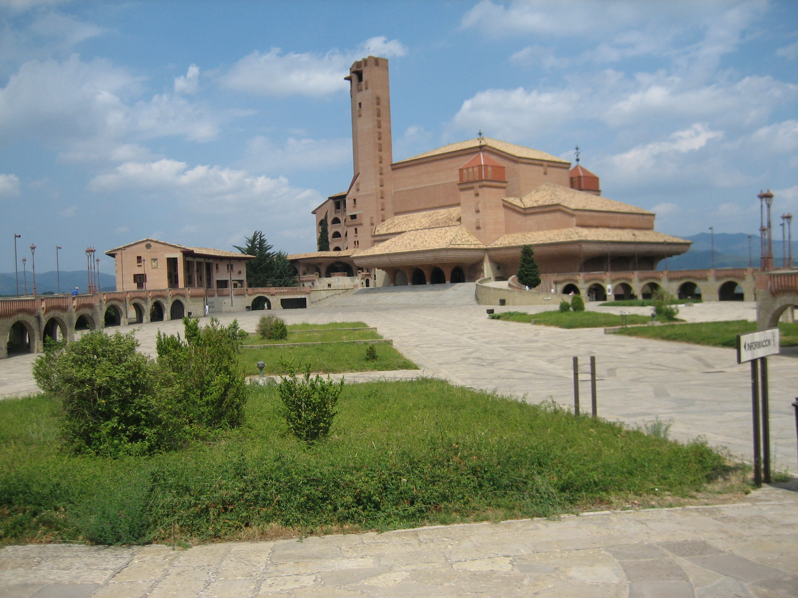 Torreciudad Sanctuary